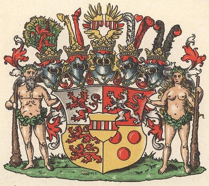 Wappen der Grafen von Limburg-Stirum (auch Limburg-Styrum)